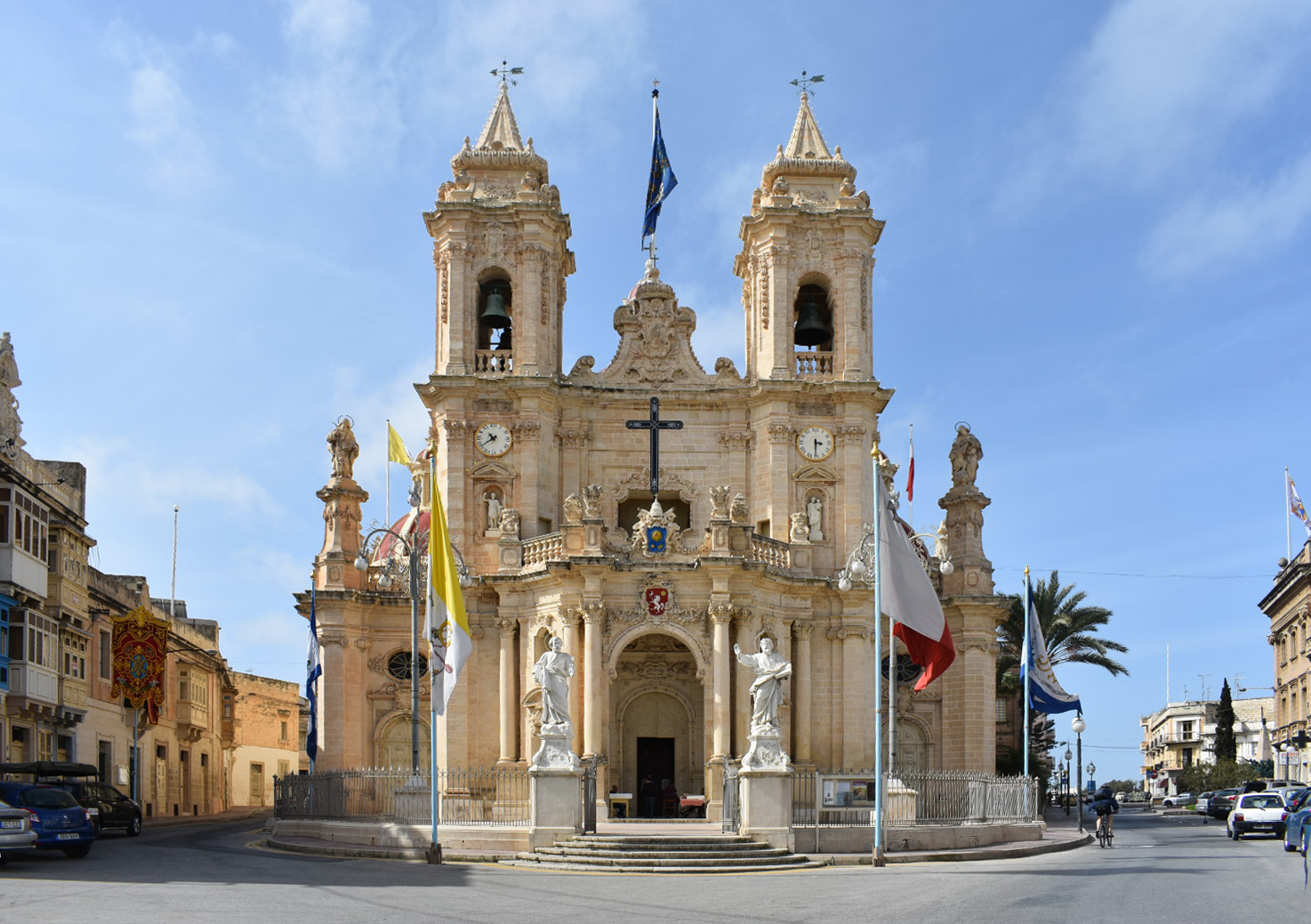 Żabbar